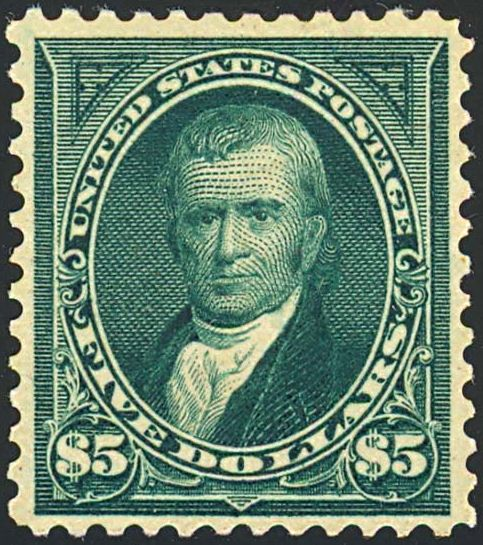 US Postage Issue, 1894. This stamp was reprinted the following year on watermarked paper.